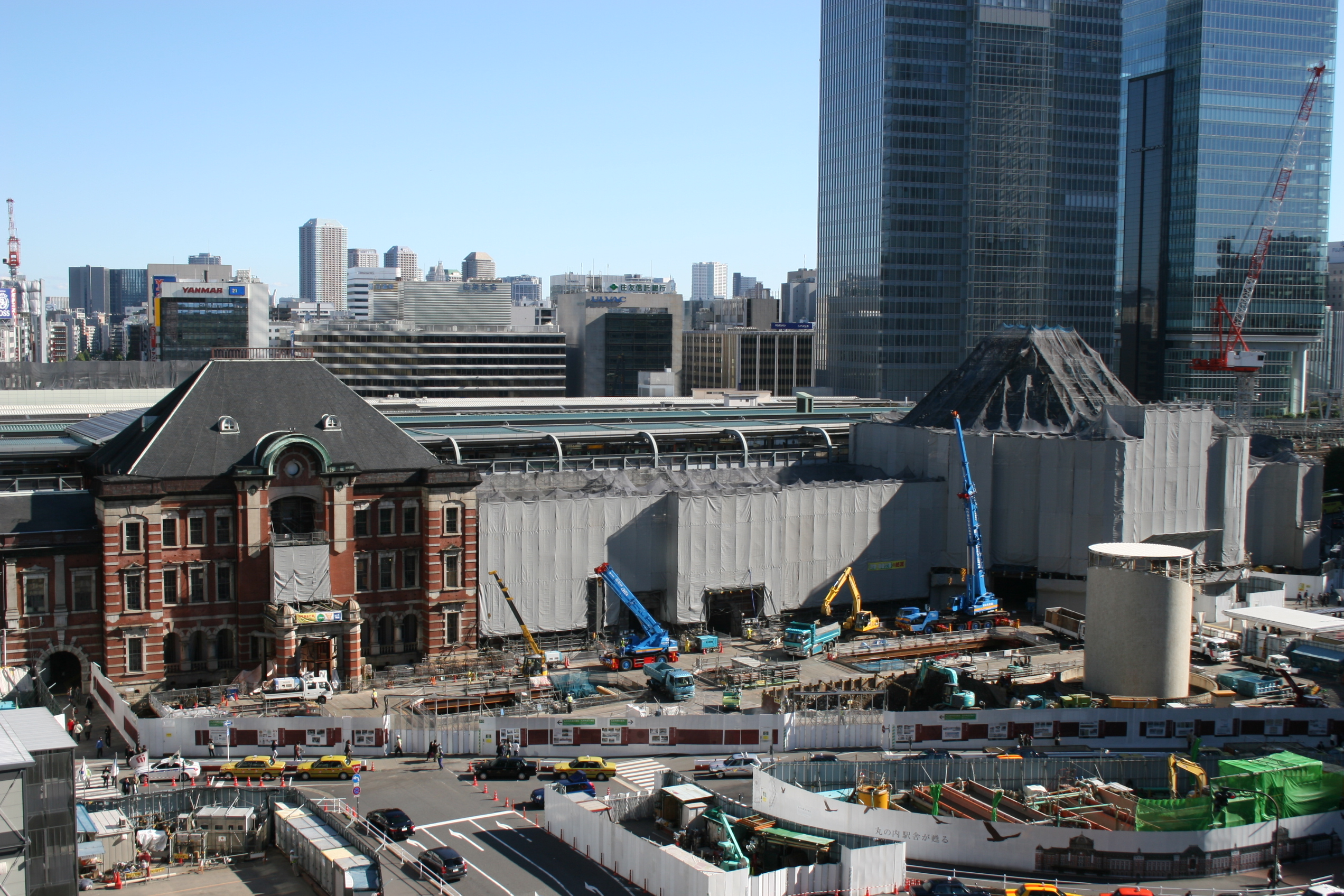 Tokyo Station Marunouchi Building in Tokyo, Japan under conservation and restoration work. Photo taken from 7th floor deck of Shin-Marunouchi Building.